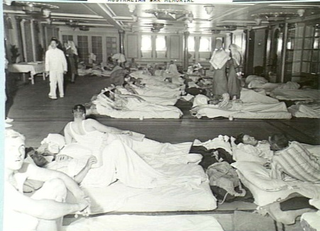 AWM caption: January 20, 1940 -- At sea off Freemantle, Western Australia. SS "Empress of Canada" troop transport.